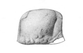 Large, well preserved carapace. Type. Natural size The Eurypterida of New York. Volume 2. New York State Museum Memoir 14, plate 86